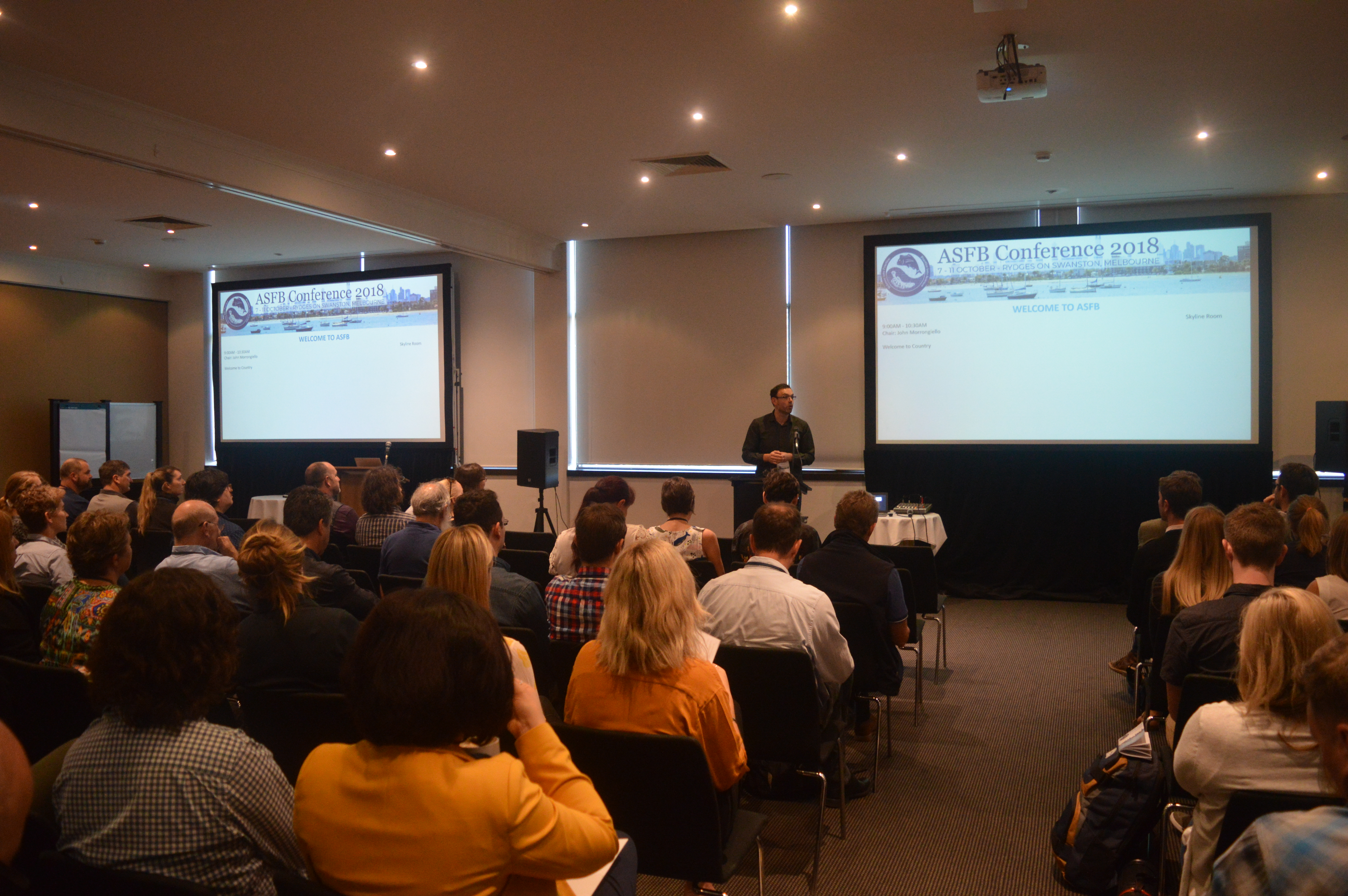 Fish researcher John Morrongiello, from the University of Melbourne, opens the 2018 Australian Society for Fish Biology conference in Melbourne, Victoria. The meeting took place from October 8-11, 2019.